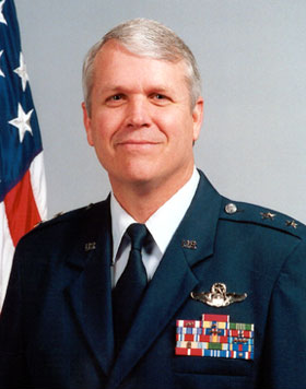 Photo of Major General Gregory B. Gardner